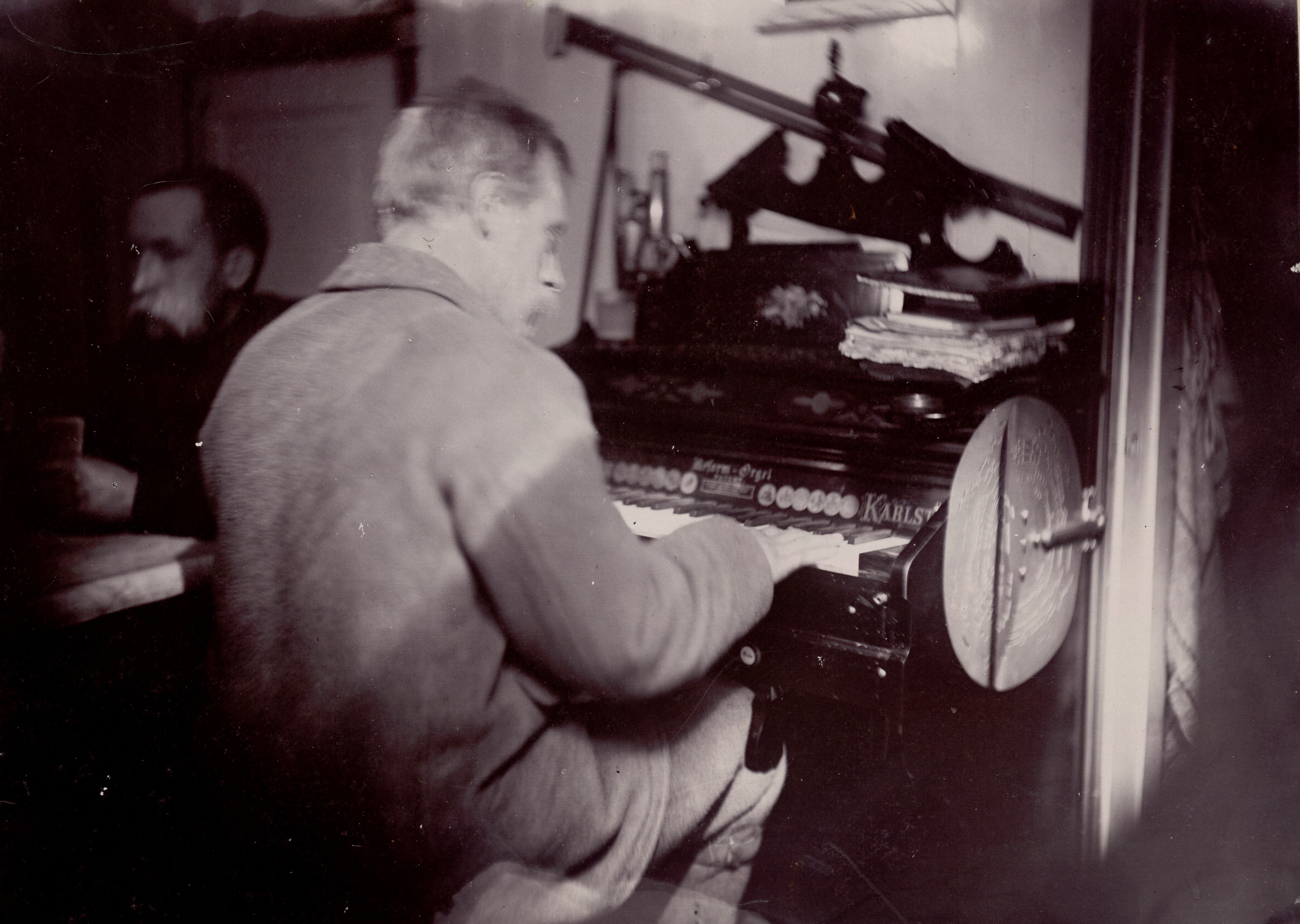 Musical entertainment on board the «Fram». Fridtjof Nansen is playing the organ. One of the pictures from the expedition with arctic ship toward the North Pole in the period June 24, 1893 to August 13, 1896. According to the plan, the ship was to drift in the ice with the ocean current from the coast of Siberia across the North Pole to Greenland. The goal, to get to the North Pole, was not reached, but the scientific evidence gathered was of great importance to arctic research.